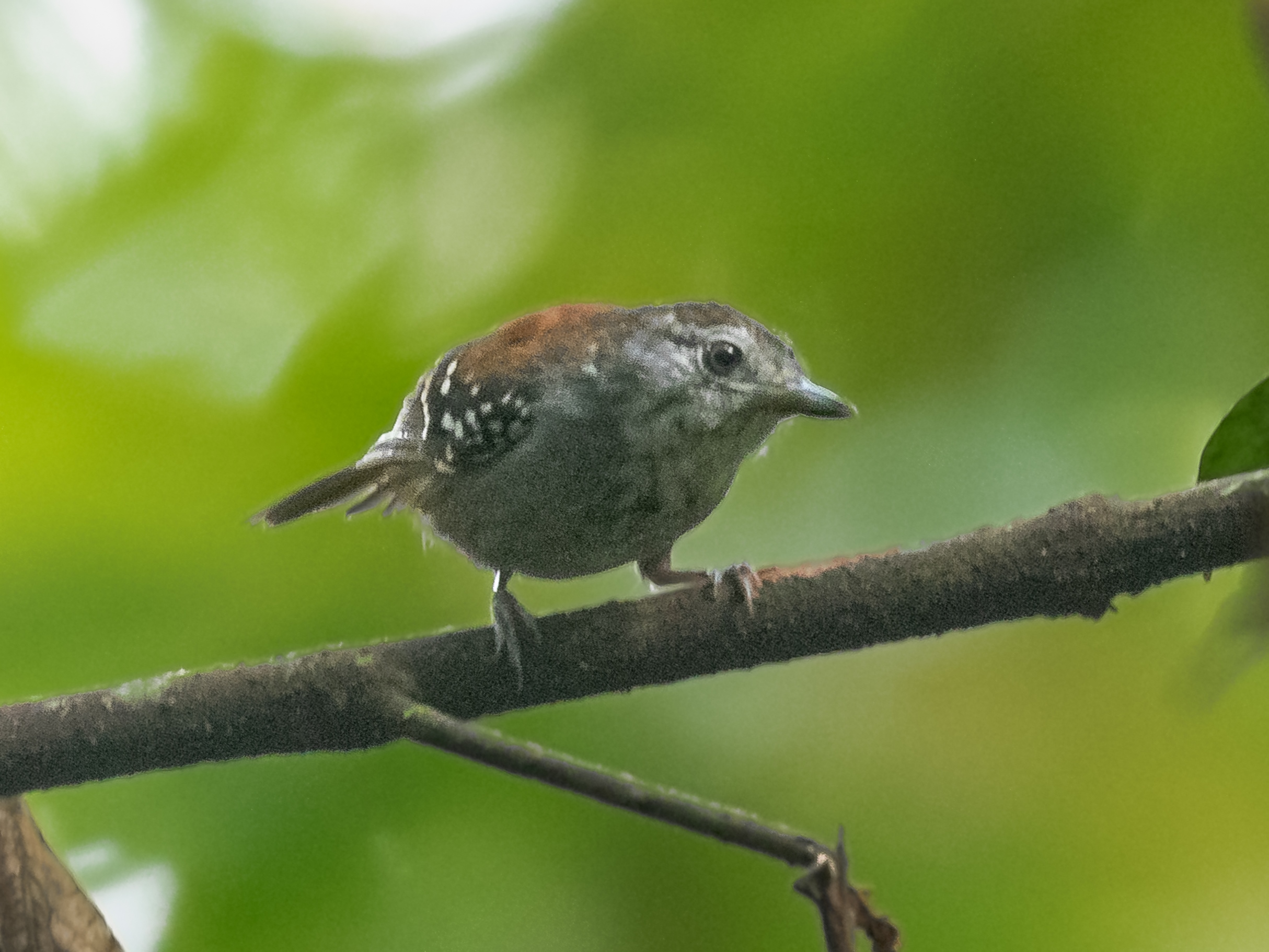 Negro stipped Antwren (male); Manacapuru, Amazonas, Brazil